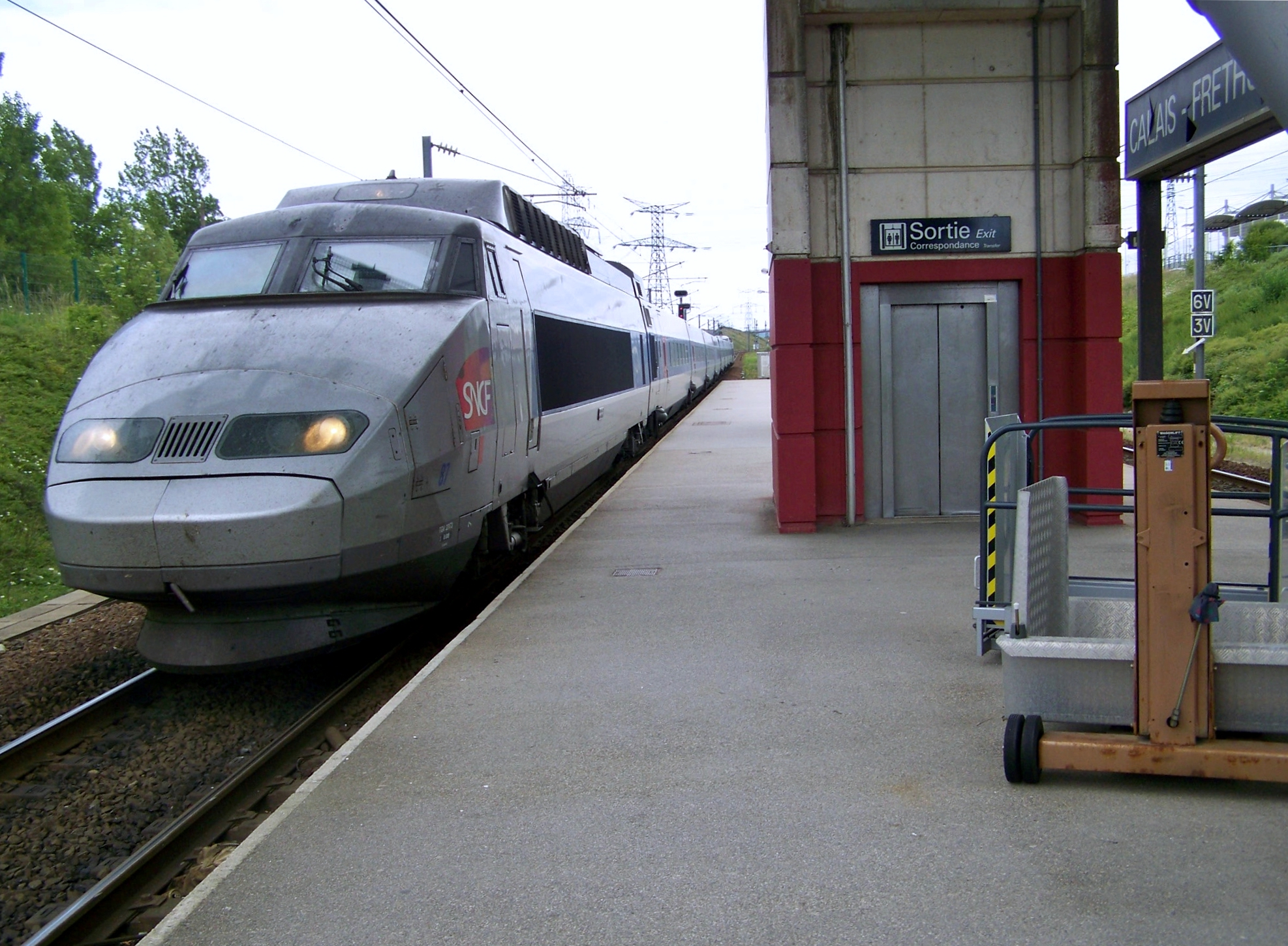 Sight of a French TGV ensuring the regional journey train n° 844410 from Boulogne-sur-Mer to Lille and arriving at Calais-Fréthun railway station, in Pas-de-Calais.